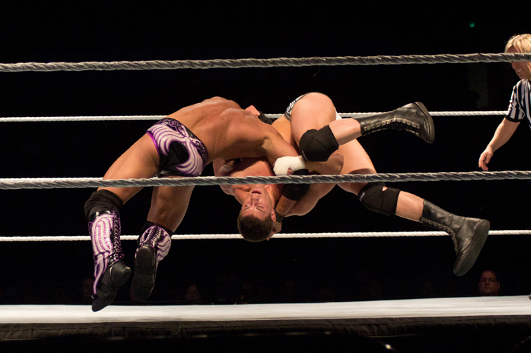 Cody Rhodes hits Cross Rhodes on Justin Gabriel. Taken January 7, 2012 during a WWE SmackDown live event in Montgomery, Alabama.